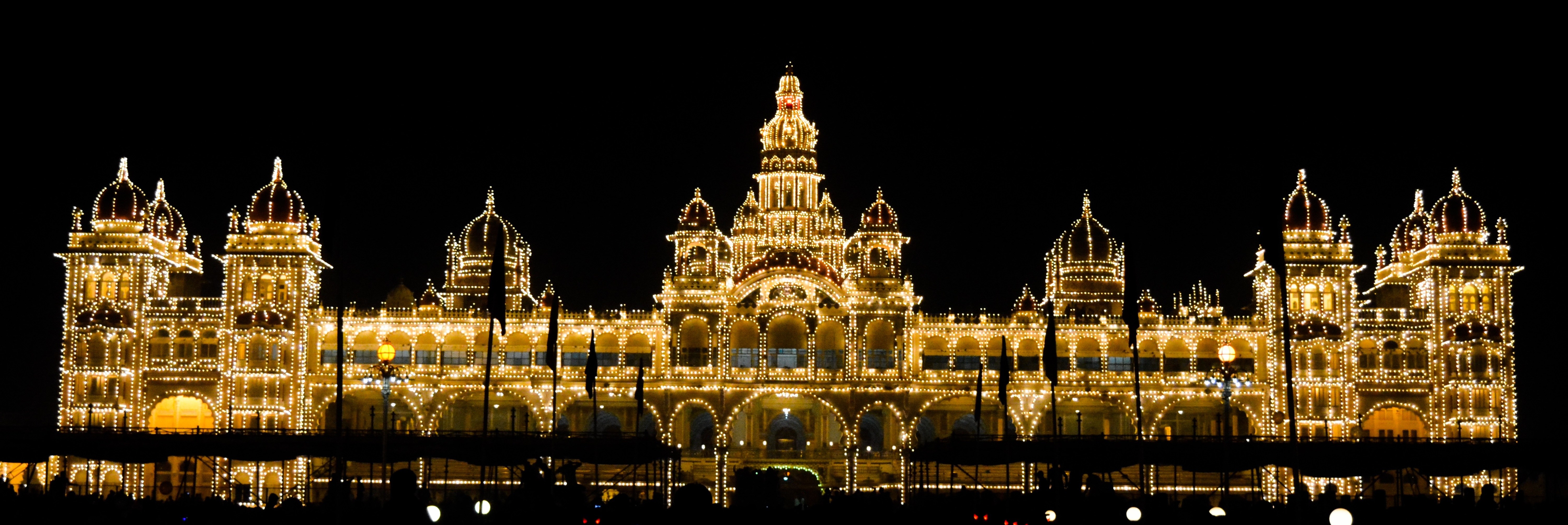 Mysore Palace in night decorated with lakhs of bulbs